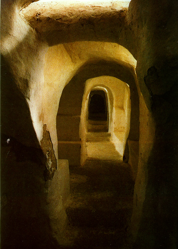 A Ghorfa (Arabic: غرفة room) is a Berber architectural term for a vaulted room used for storing grain.